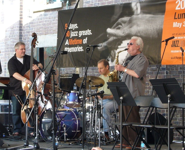 Lee Konitz trio performing at Art of Jazz event, on June 02, 2007, at Distillery District in Toronto. Kieran Overs on bass.